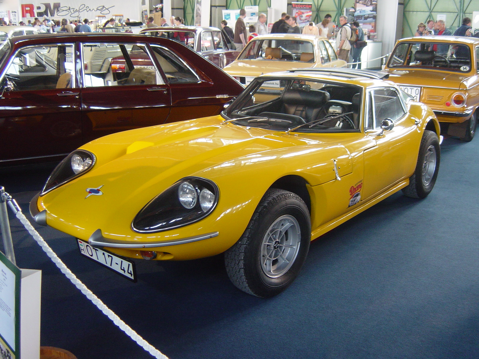 1970 or 1971 Marcos 3-litre (Volvo) at a Hungarian classic car show in 2008.